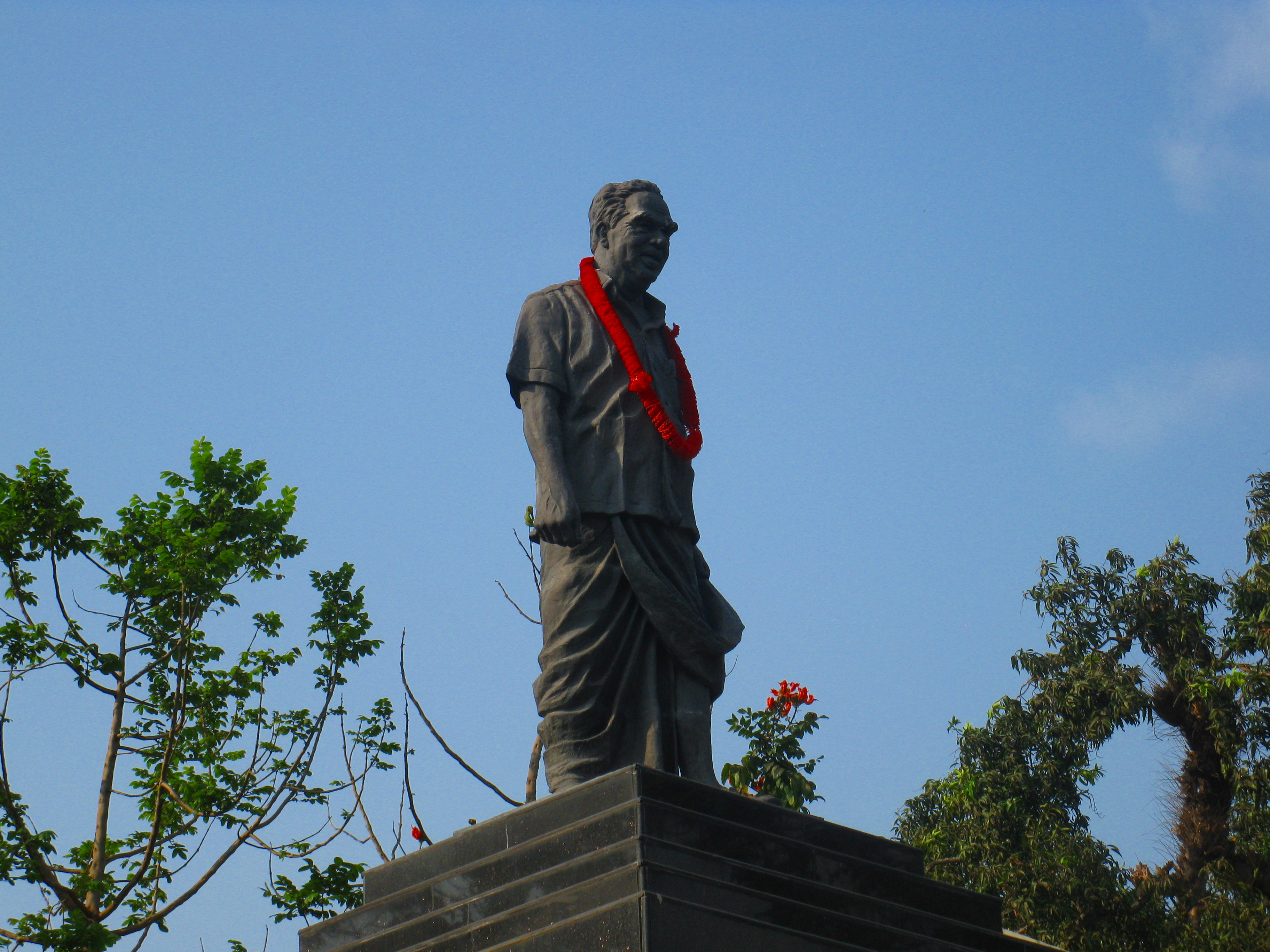 This media file is uploaded with Malayalam loves Wikimedia event. AKG Statue, Caltex Junction ,Kannur